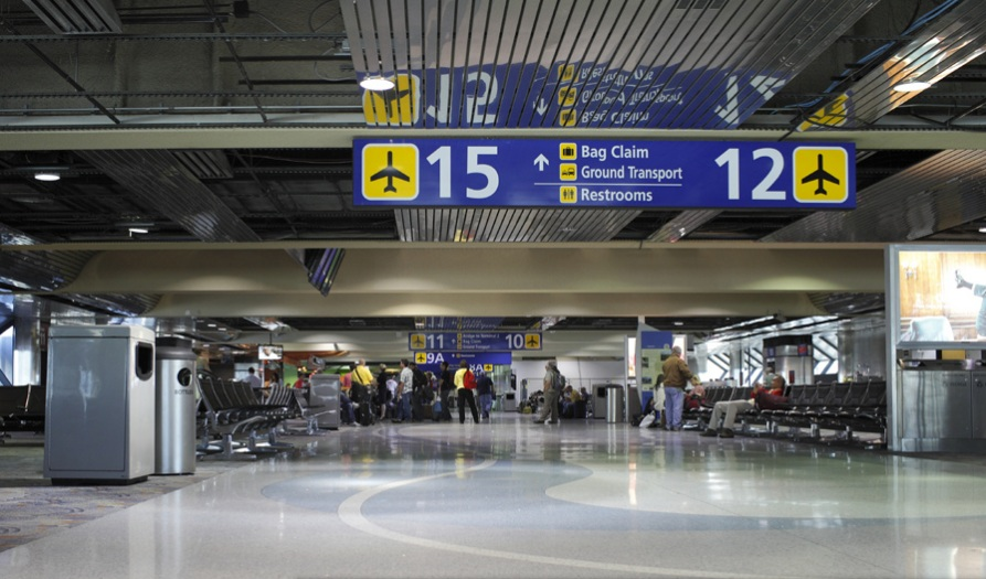 Inside the Terminal of Oakland International Airport